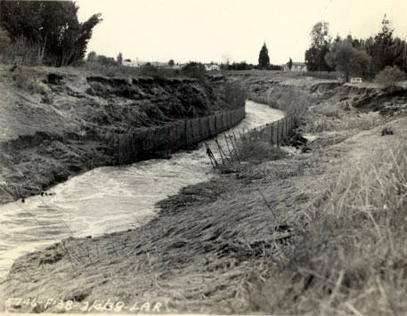 Los Angeles River - flood of 1938 near Laurel Canyon Road Los Angeles River - Looking upstream from Laurel Canyon Avenue, showing wire and pipe protection wich withstood the flood successfully. River mile 38.1. This image is from the Report on Engineering Aspects, Flood of March 1938 by the U. S. Engineer Office in Los Angeles and compiled in August 1938. The Los Angeles River and the river's tributaries flooded after a very wet rainy season and one particularly bad storm on March 1-3, 1938. The Report is a part of the Special Collections at CSU, Northridge and gives an extensive account of how different river channels reacted to the flood. After this flood, the Army Corps of Engineers set about insuring extensive flooding would not cause such extreme damage in the future. Image 29 in report. Black and white photograph. 3.5 x 4.5 in.